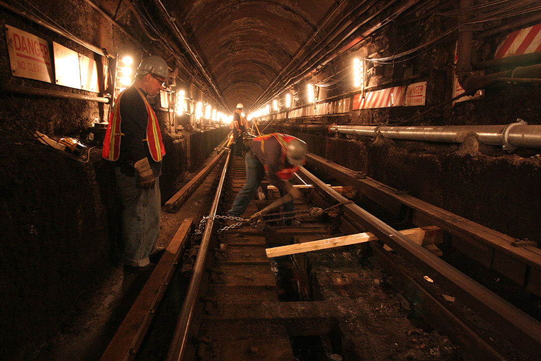 Over the weekend of October 8–9, workers repaired and replaced signals, cables and electrical components on the 7 Line. This photo shows maintainers using come-along and pry sticks to remove old third rail. Photo by Metropolitan Transportation Authority / Leonard Wiggins.